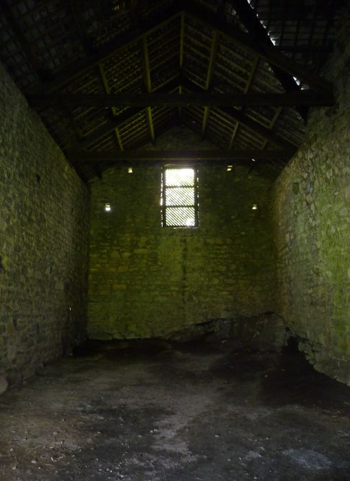 Bonawe Iron Furnace, Scotland